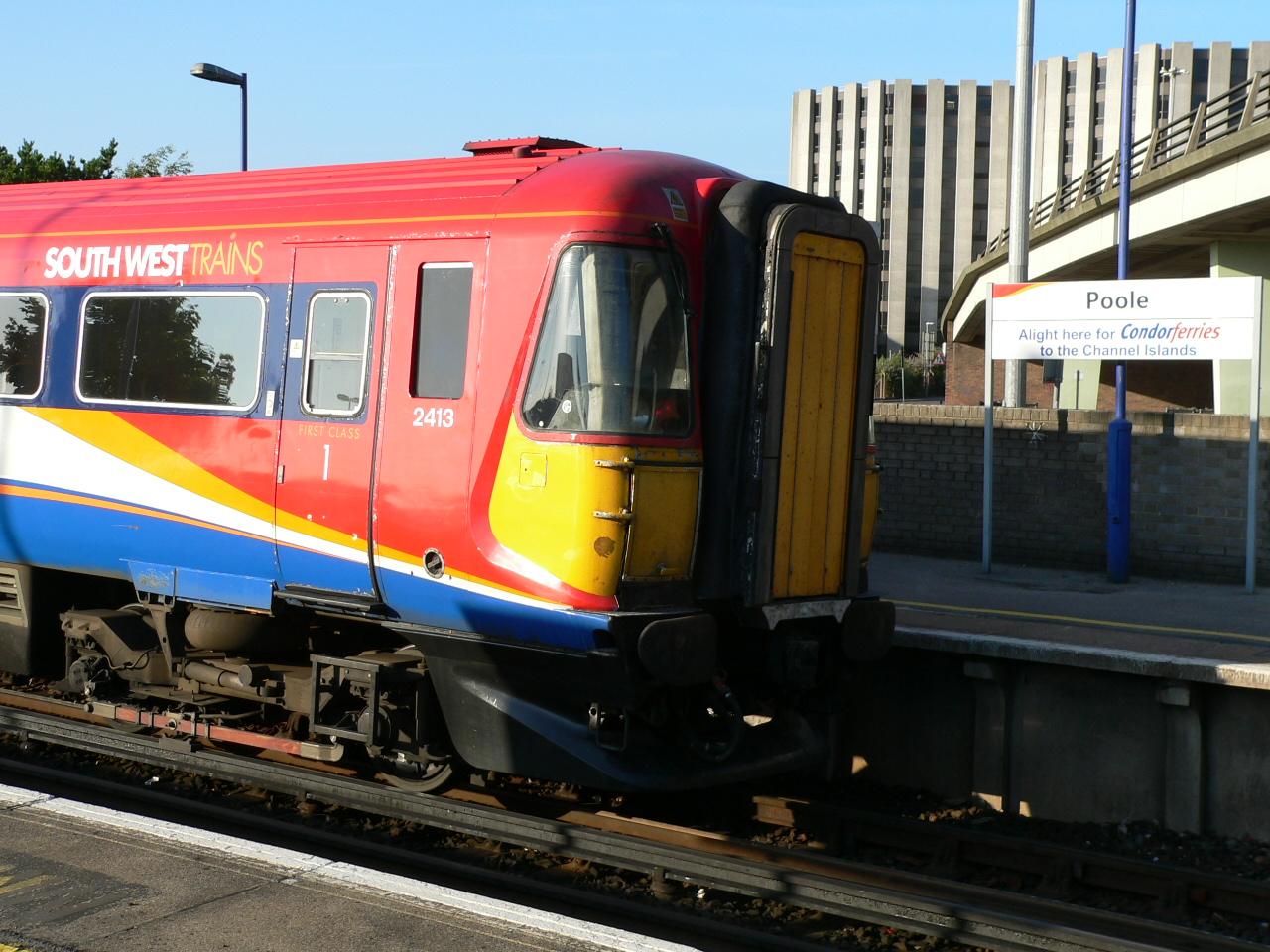 The rear end of South West Trains Class 442 750v dc third rail EMU (44)2413, photographed at the eastern end of Poole railway station.